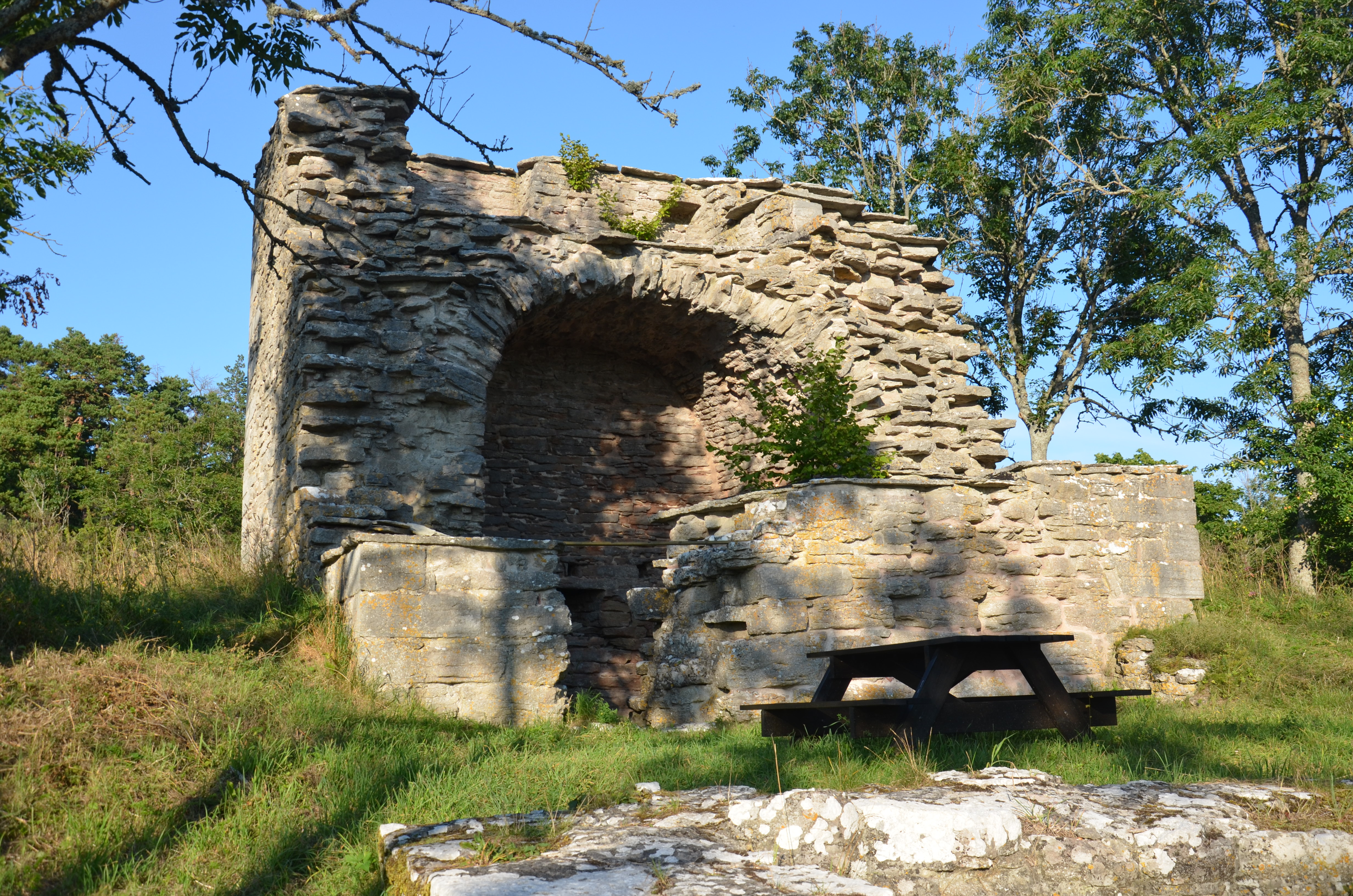 Mynttornet, Fardume slott, Gotland. Barrel vault from limestone, built circa 1200 AD.